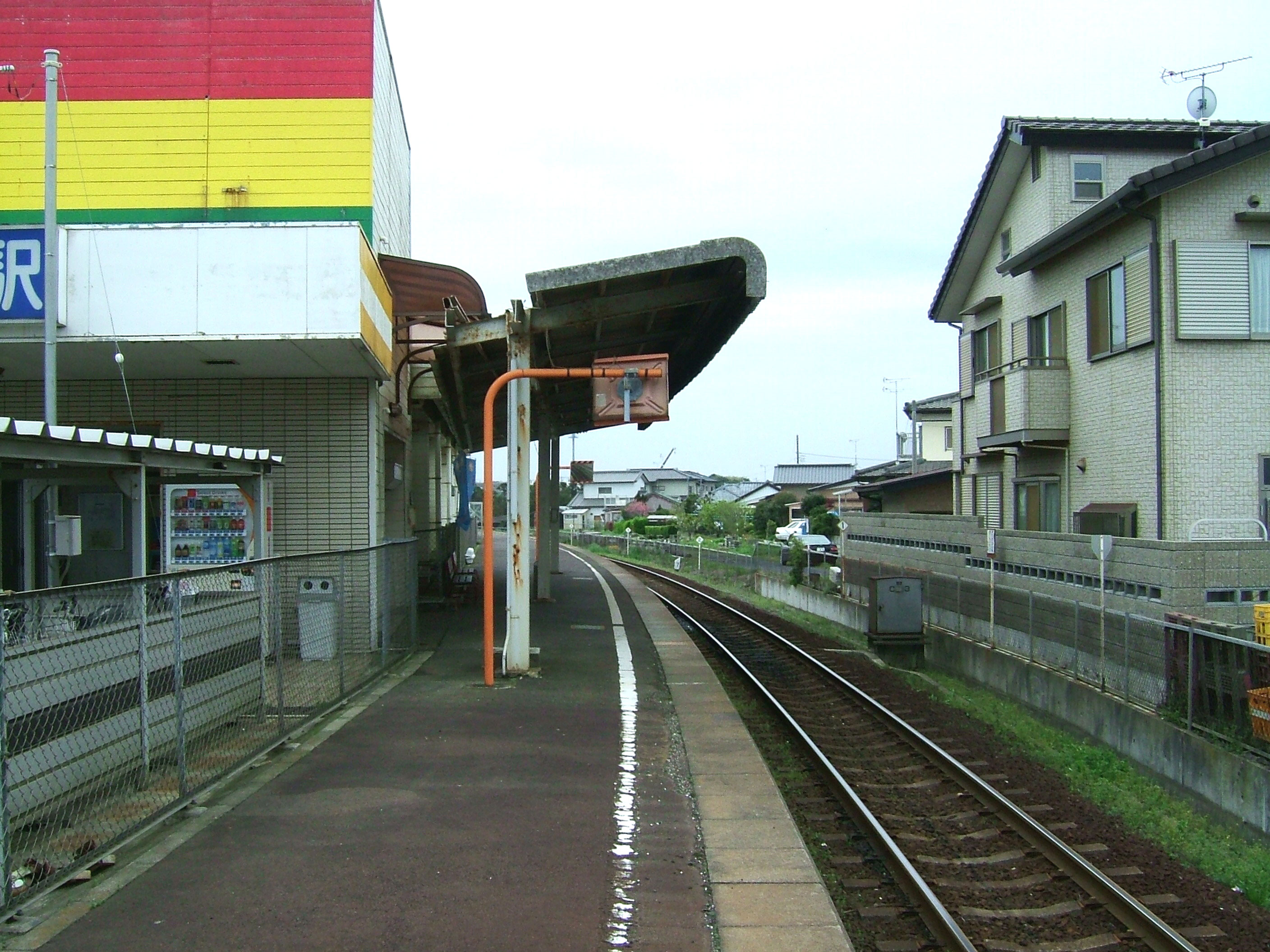 The platform(view from Ajigaura station side) of Hiraiso Station, Hitachinaka Seaside Railway Minato Line